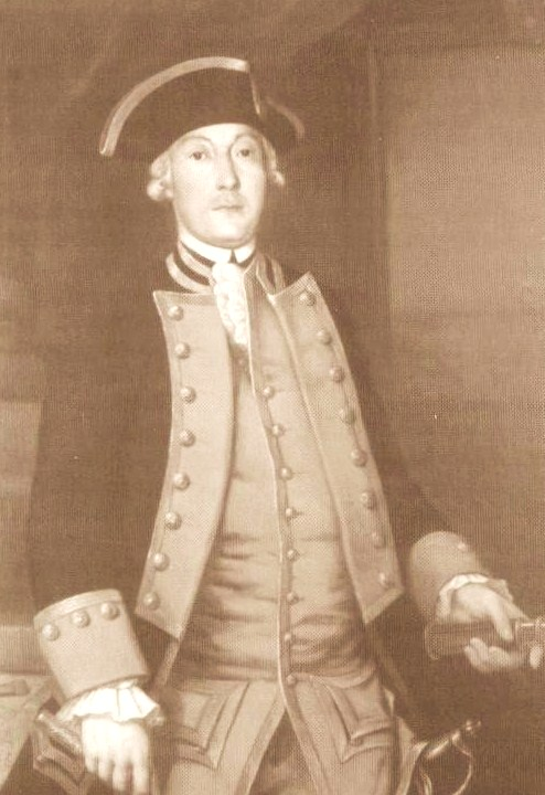 Melvill